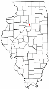 Category:Illinois_city_locator_maps Summary Location of Wenona within Marshall County and Illinois.